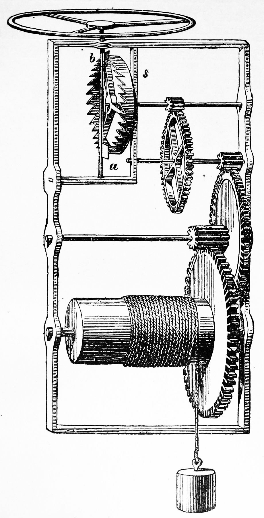 "Tidens naturlære" 1903 af Poul la Cour, Fig. 12. Hjuluhr med gammeldags Hemværk. Bogen findes digitalt på Tidens Naturlære "Tidens naturlære" (Nature of time) 1903 by Poul la Cour, Ill. 12. Clock with verge escapement. The book is digitized at Tidens Naturlære